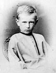 Grand Duke Sergei Alexandrovich of Russia